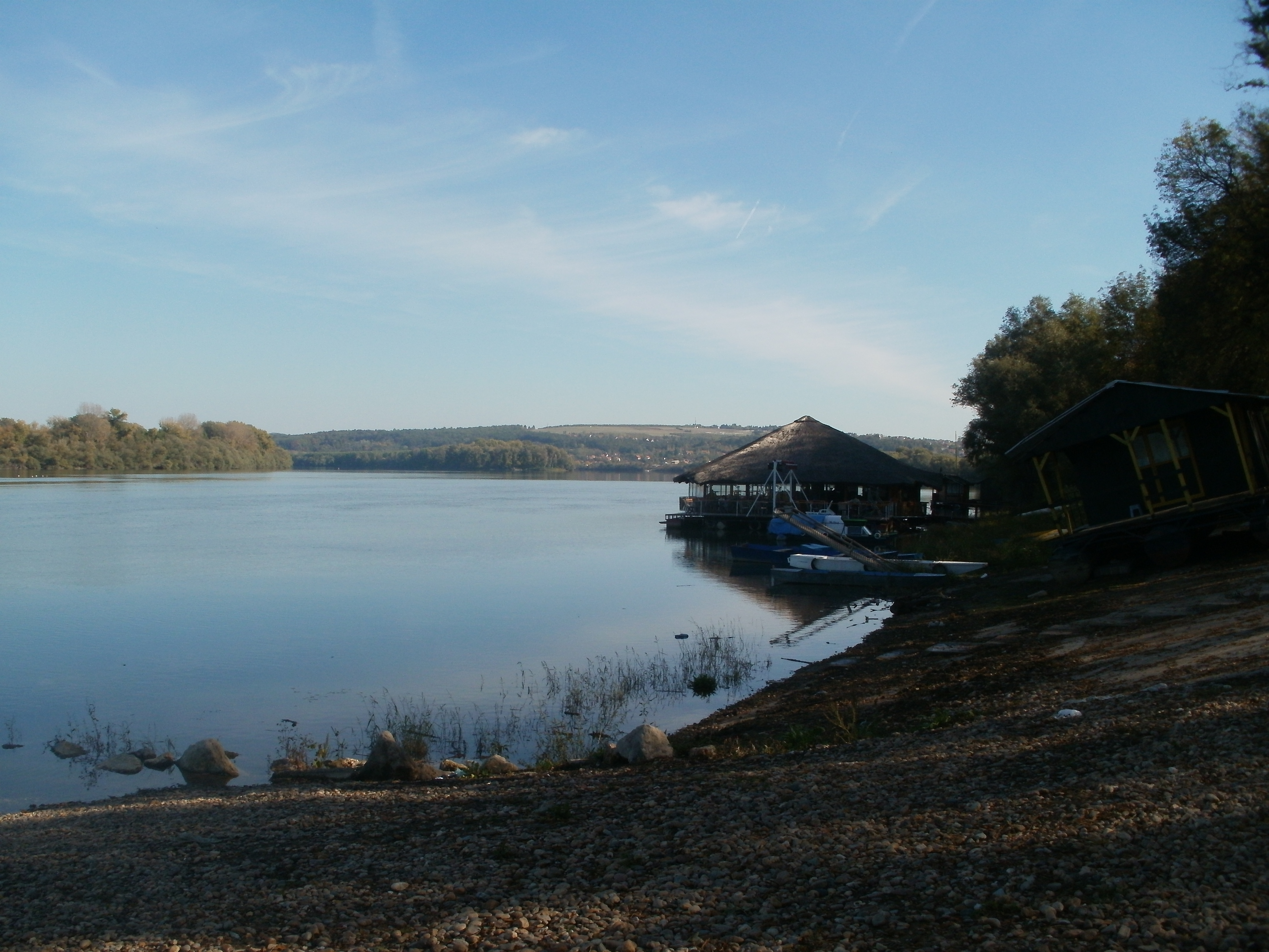 Река Сава 1